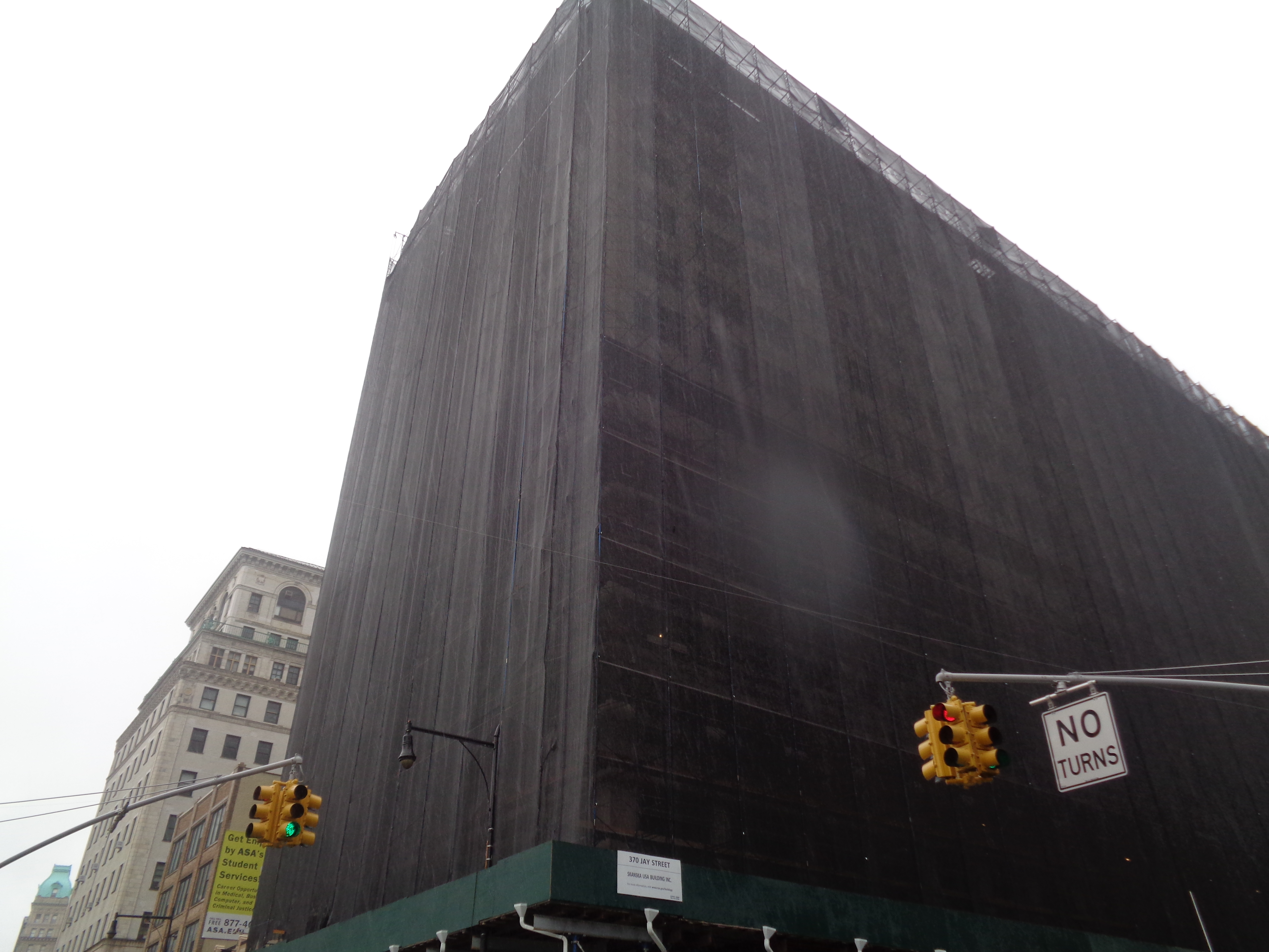 370 Jay Street, the former MTA headquarters, under renovations to become part of New York University (NYU)'s Brooklyn Campus. Looking from the southeast corner of Jay and Willoughby Streets.